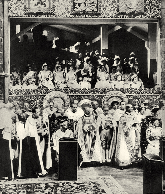 "First photographs of a coronation ever taken. King George V and Queen Mary occupying their chairs of estate on the south side of the altar during that part of the coronation service which precedes the anointing. On the left, the bearers of the four swords. On either side of the King and Queen, the supporting bishops. Reproduced by permission from the late Sir John Benjamin Stone's collection of photographs in the Birmingham Reference Libraries."